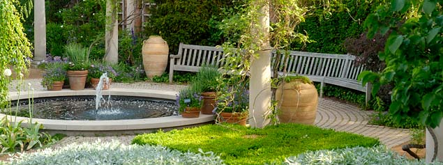 Chicago Botanic Garden English Walled Garden